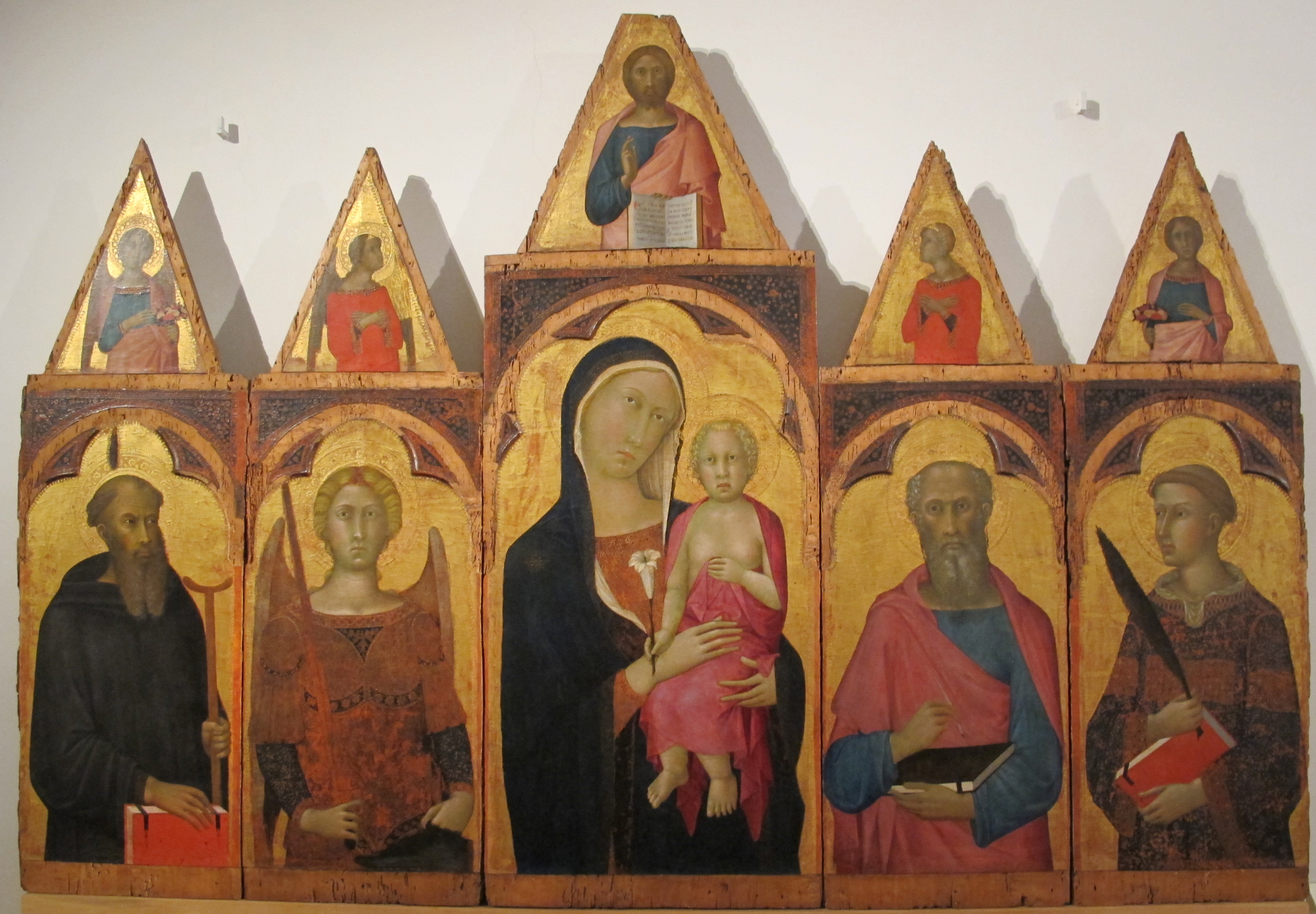 Painting in the National Pinacotheque, Siena